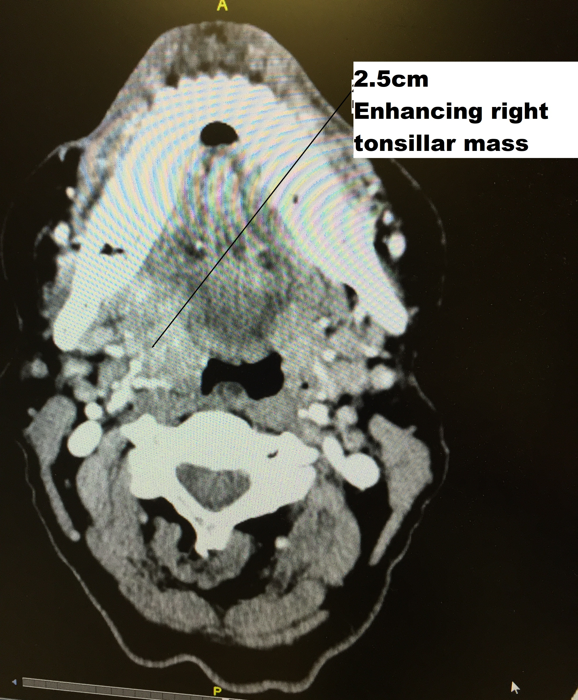 Transverse plane enhancing CT scan viewed in the caudo-cephalic direction showing a right tonsillar enhancing squamous cell carcinoma (HPV positive)